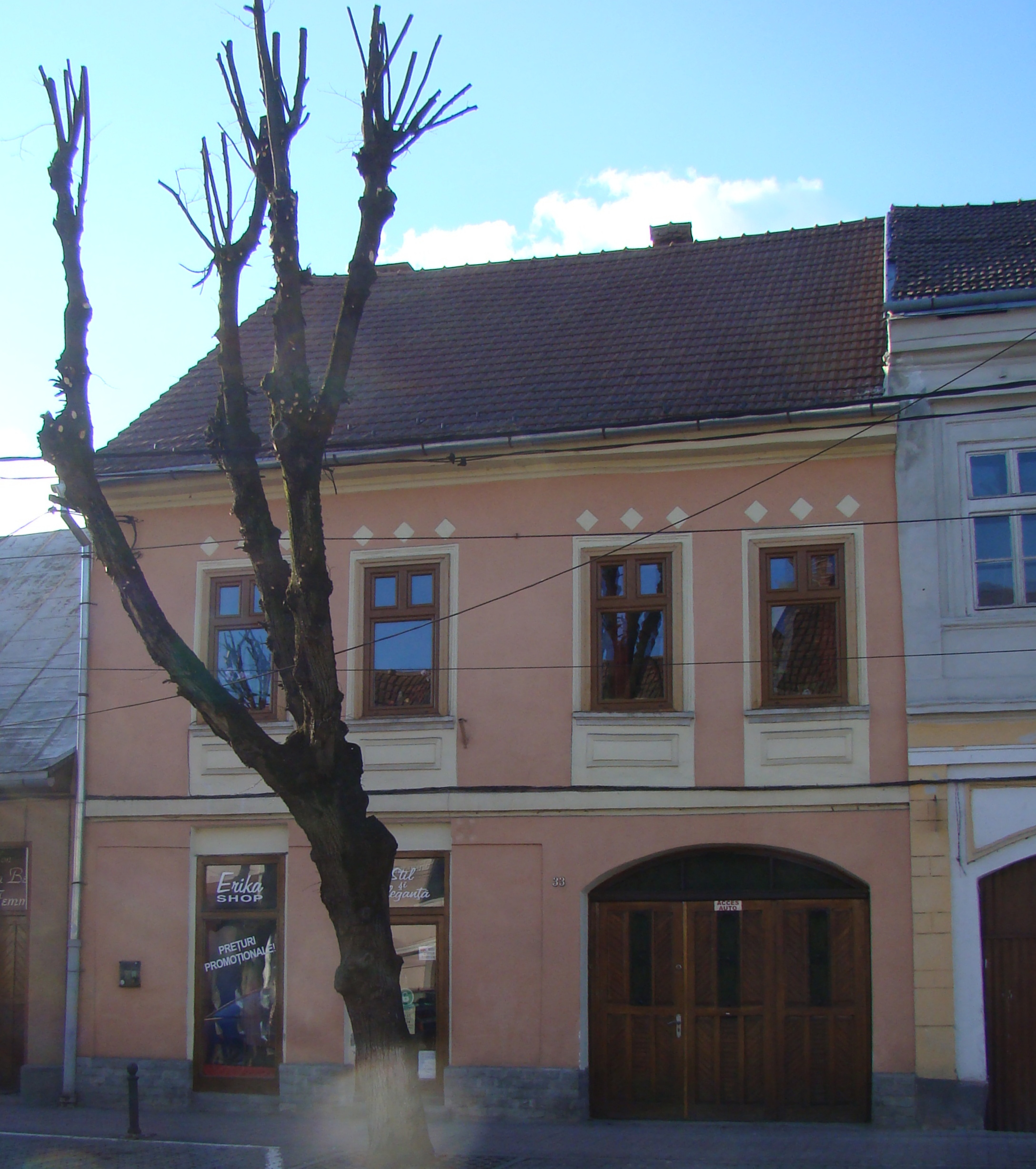 House, historic monument, in Bistriţa, Dornei street, number 33